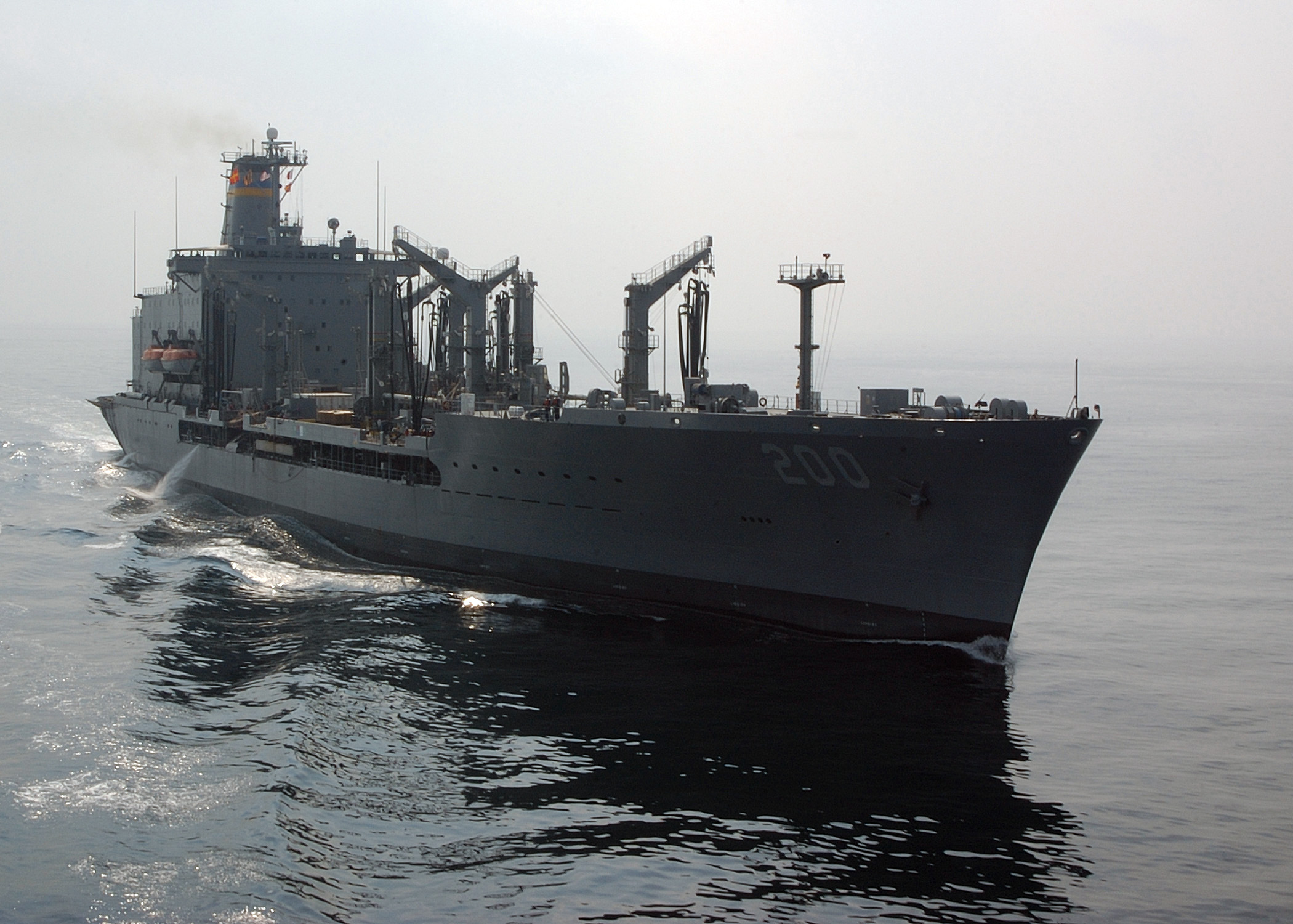 Arabian Gulf (Oct. 31, 2004) - The Military Sealift Command (MSC) underway replenishment oiler USNS Guadalupe (T-AO-200) approaches the guided missile cruiser USS Vicksburg (CG-69) to conduct a replenishment at sea (RAS).